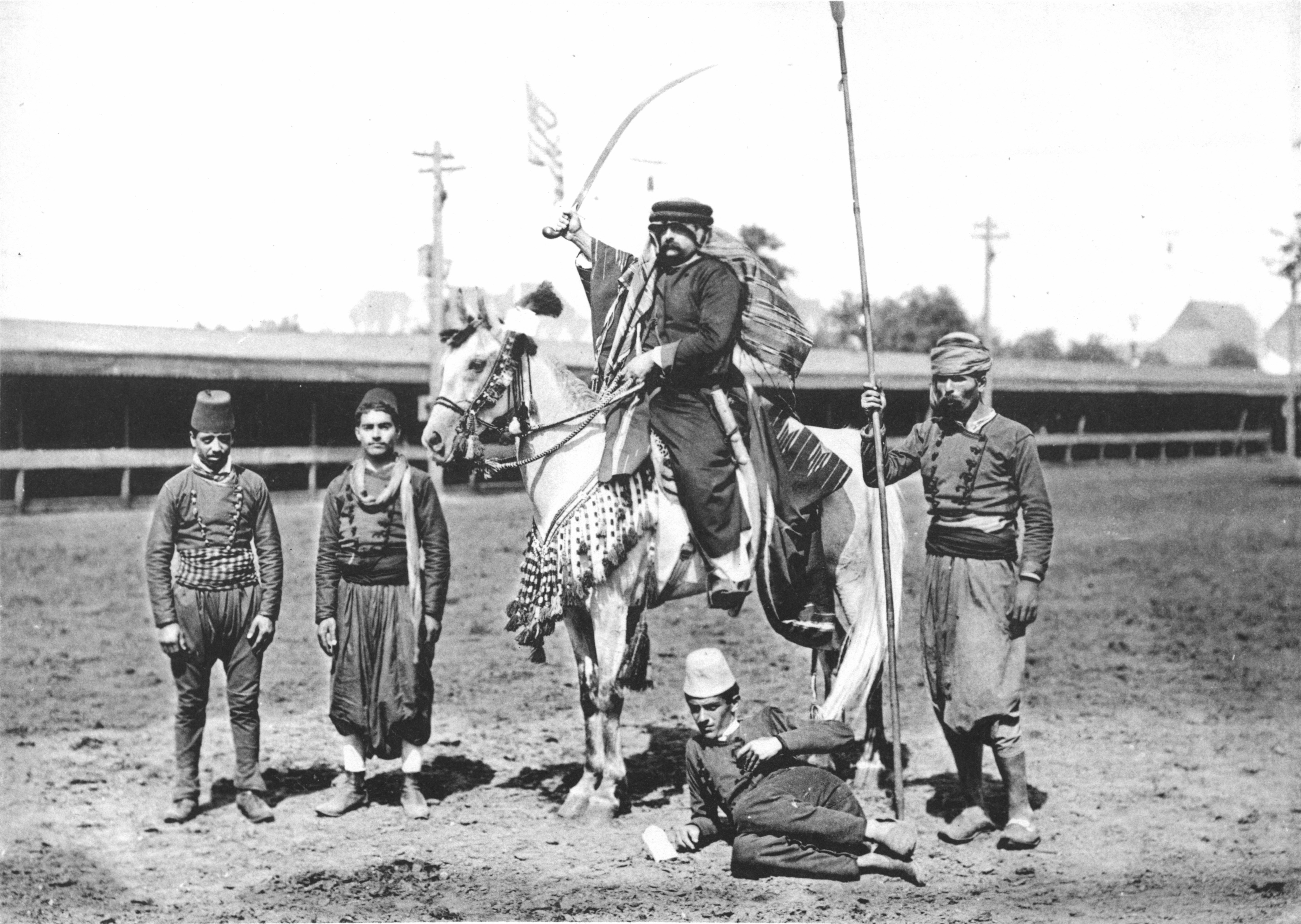 Official Views Of The World's Columbian Exposition: Scene At Arabian Village--On The Midway